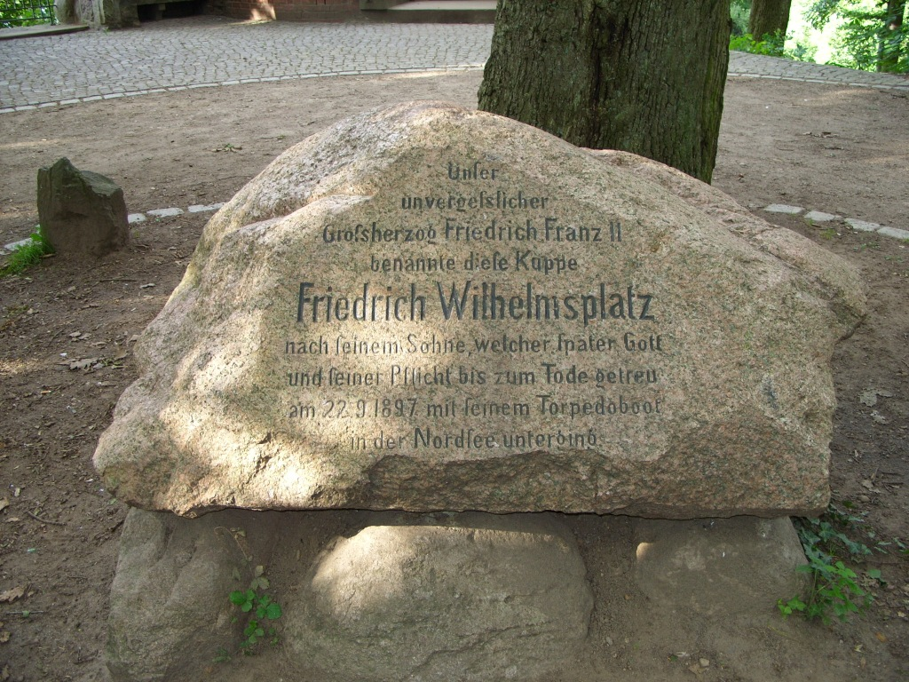 Friedrich Wilhelm memorial at Reppin Castle in Schwerin, Mecklenburg-Vorpommern, Germany